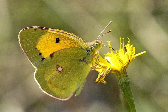 Picture taken in Commanster, Belgian High Ardennes . Species: Colias croceus ♂ male